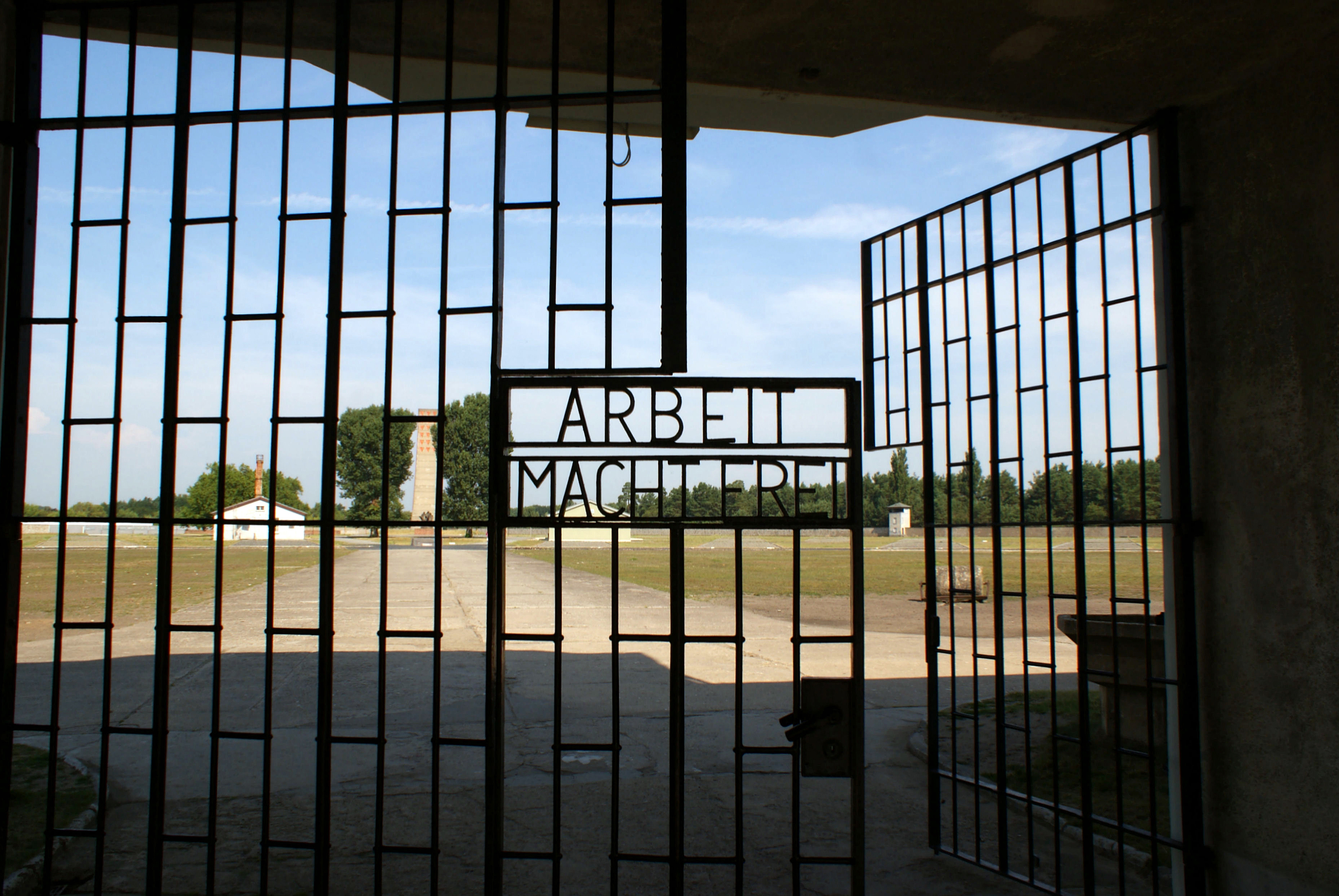 Gate of Concentration Camp Sachsenhausen Oranienburg Germany Tekst Arbeit Macht Frei